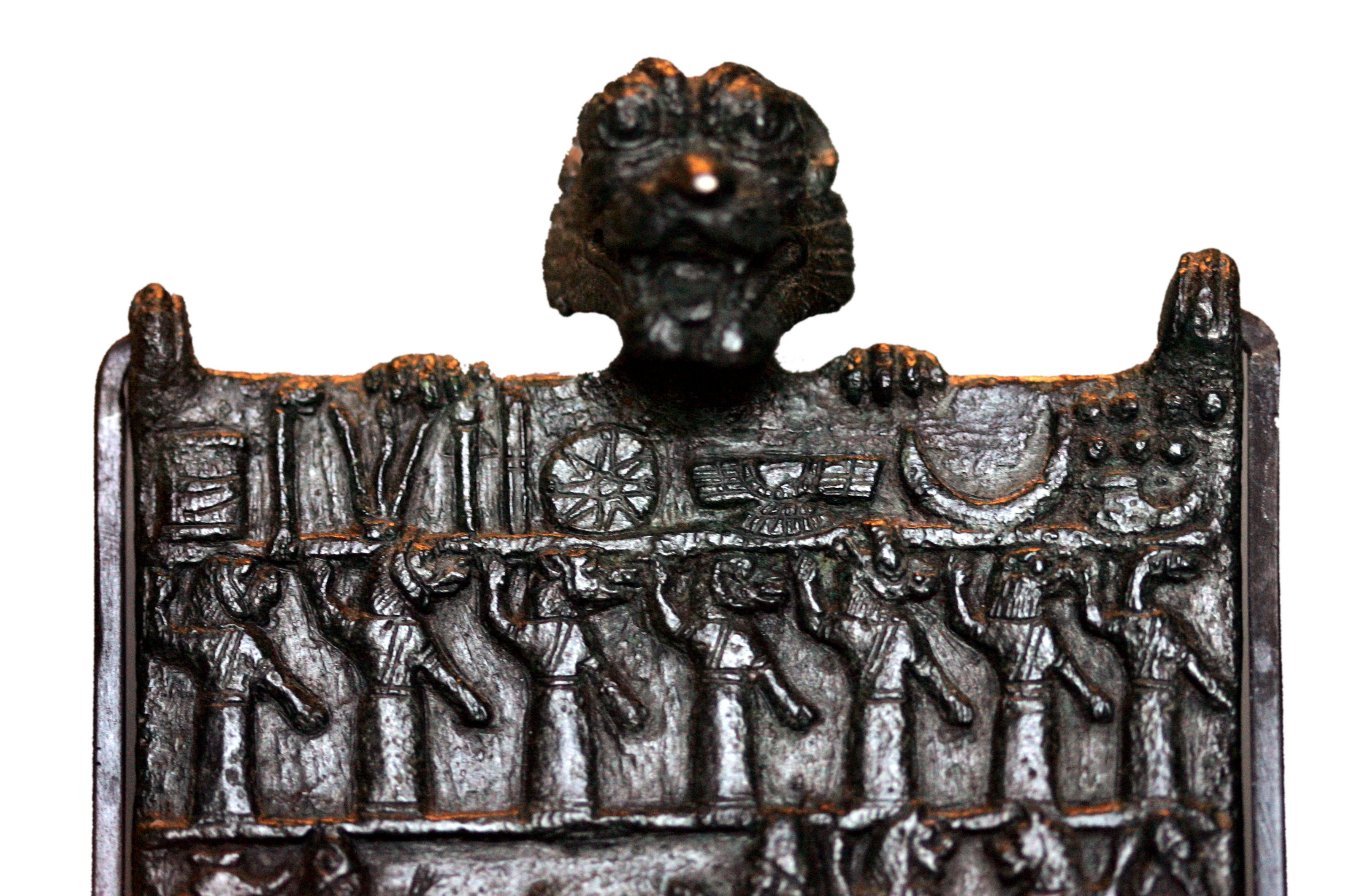 ArtistUnknownDescription Protection plaque against Lamashtu;(Pazuzu holding the plaque). [1] Neo-Assyrian era Bronze Dimensions3.80 cm high, 8.80 wide, 2.50 cm deepCurrent location (Inventory)Louvre Museum Native nameMusée du LouvreLocationParisCoordinates48° 51′ 37″ N, 2° 20′ 15″ E Established1793Website control : Q19675 VIAF: 257711507 ISNI: 0000 0001 2260 177X ULAN: 500125189 LCCN: n80020283 NLA: 35912436 WorldCat Richelieu, Rez-de-chaussée, Mésopotamie - Syrie du Nord. Assyrie : Til Barsip, Arslan Tash, Nimrud, Ninive, Salle 6Accession numberAO 22205Source/PhotographerRama Protection plaque against Lamashtu;(Pazuzu holding the plaque). [1] Neo-Assyrian era Bronze